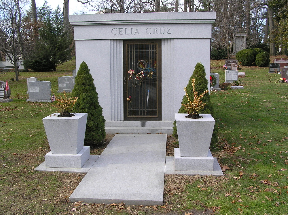 The private mausoleum of Celia Cruz in Woodlawn Cemetery, Bronx, NY